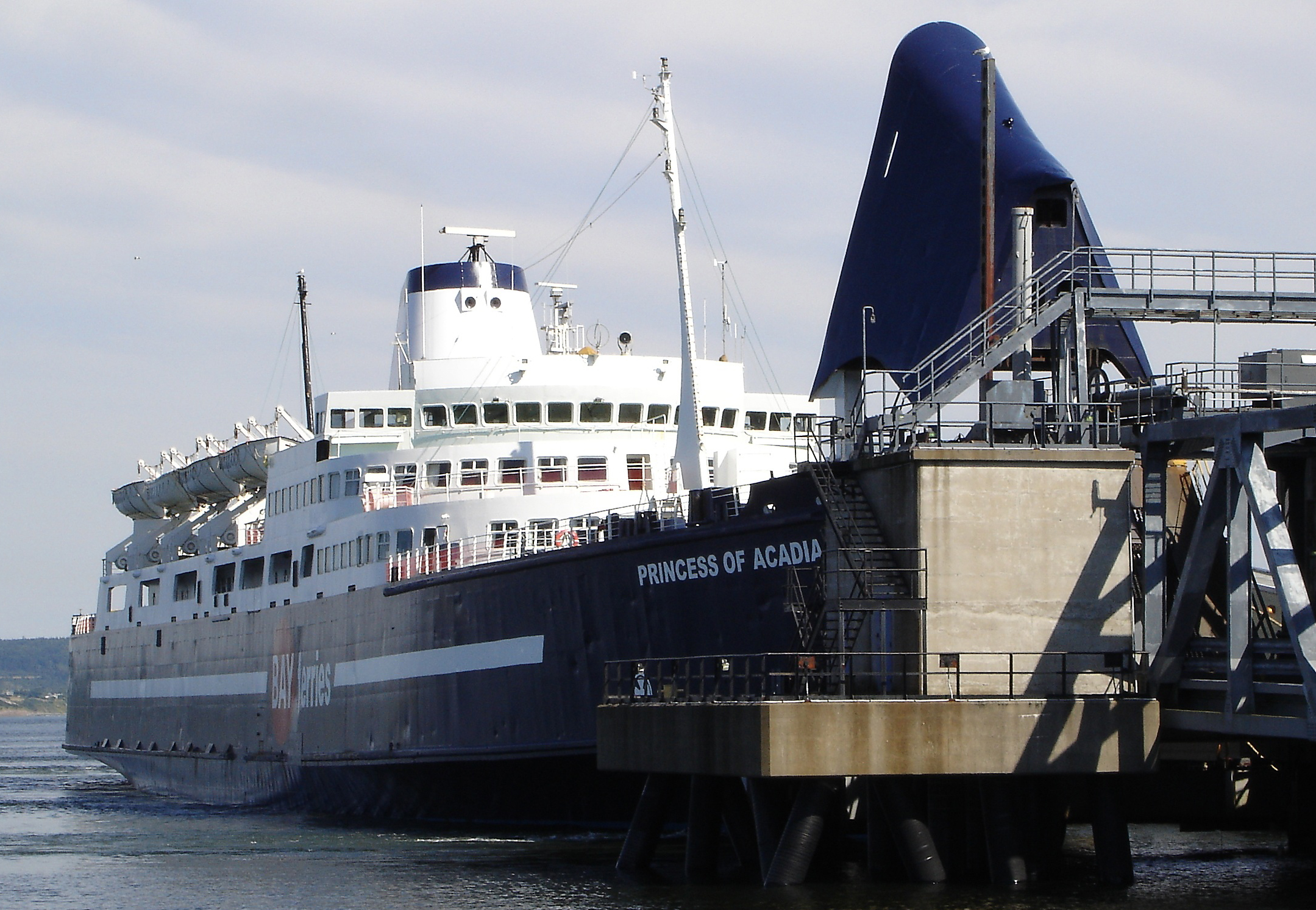 The Princess of Acadia was in service from 1971 to 2015 in the Bay of Fundy, between St. John, New Brunswick and Digby, Nova Scotia. It was a roll-on/roll-off ship with vehicle doors at both the bow and stern. Here it is loading in St. John with the bow entry raised.